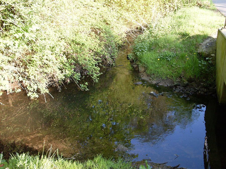 Mouth of the Sprungbach